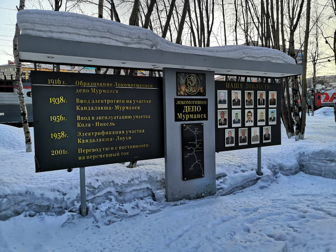 Мемориальная доска в локомотивном депо Мурманск, 2020г.